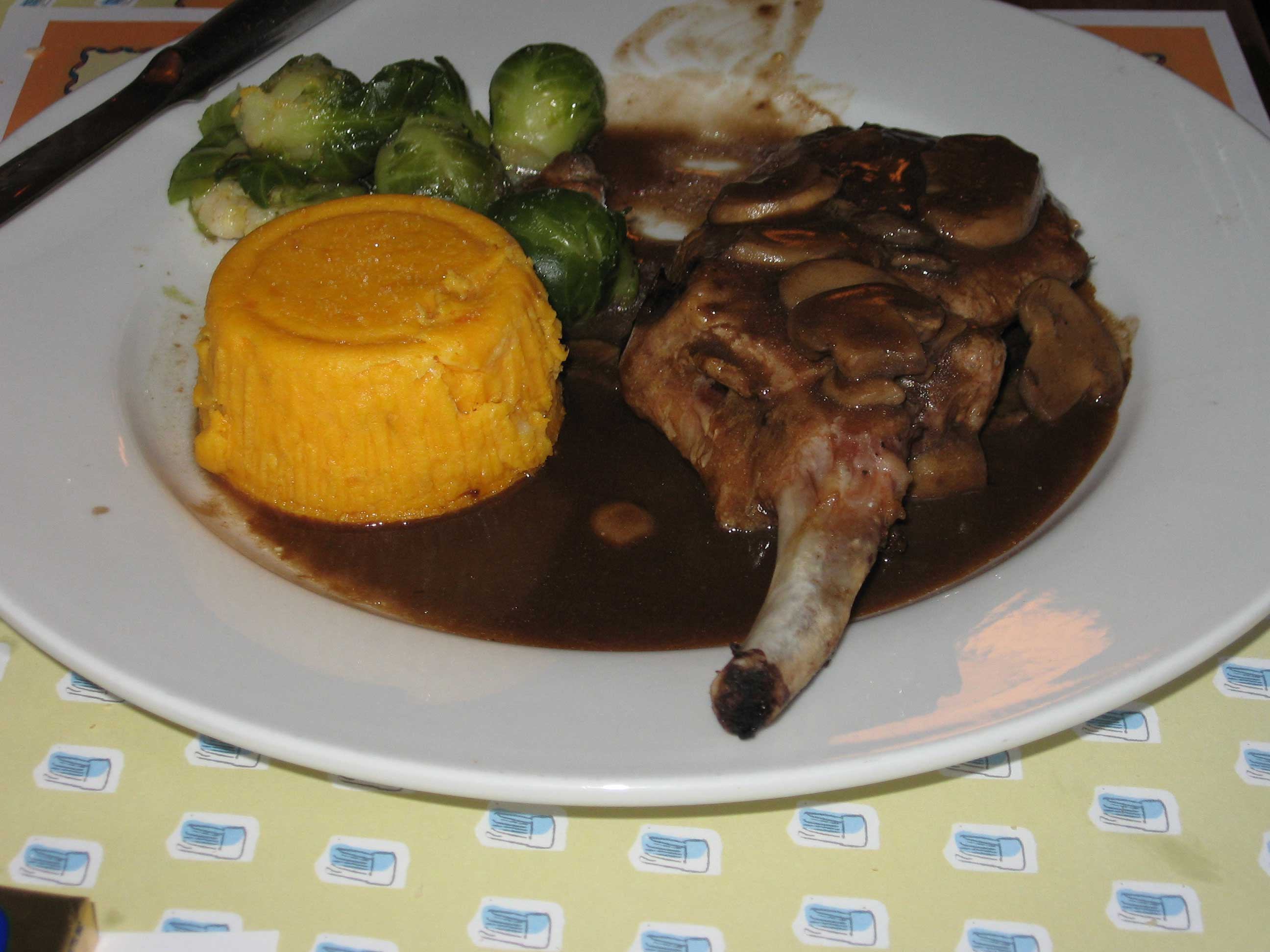 Vande Rose Farms frenched pork chop with mushroom demi glace and sweet potato puree. It also had brussels sprouts even though it wasn't mentioned on the menu. Excellent! Chefs de France is well worth a try if you have a chance while at Walt Disney World's EPCOT theme park.